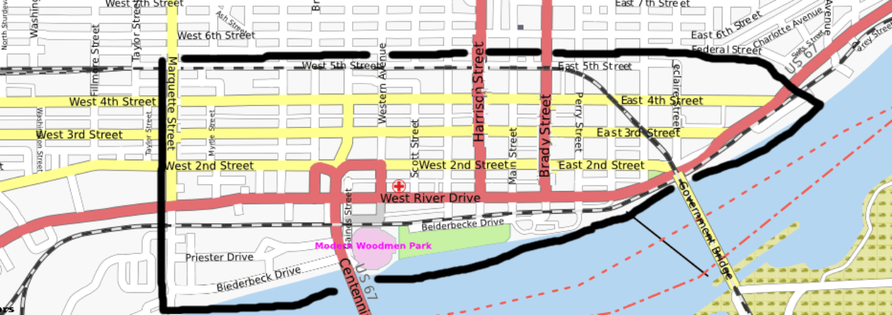 Map outlining Downtown Davenport, Iowa for National Register of Historic Places. Map is from